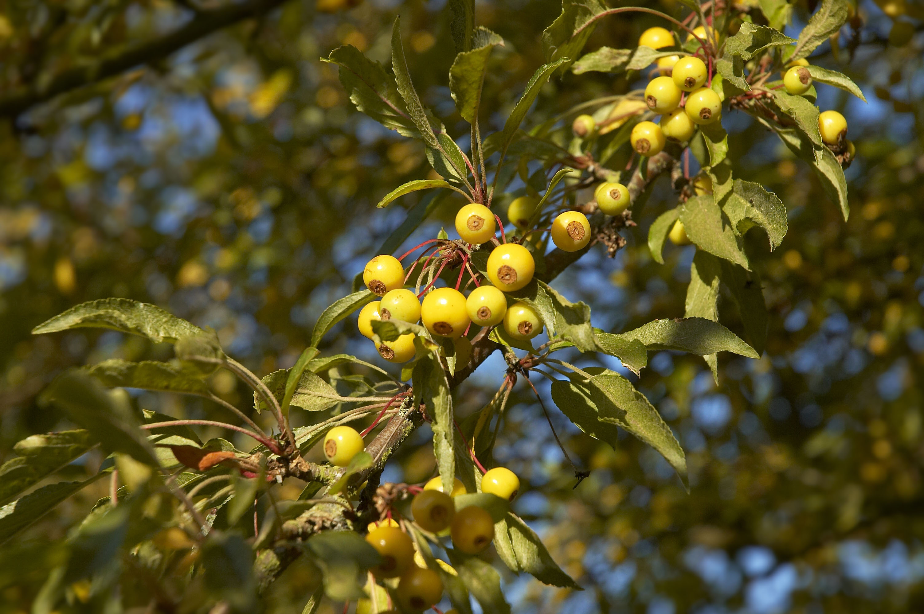 Fruits of Malus toringo var. sargentii, sieboldii Other photos of the same tree